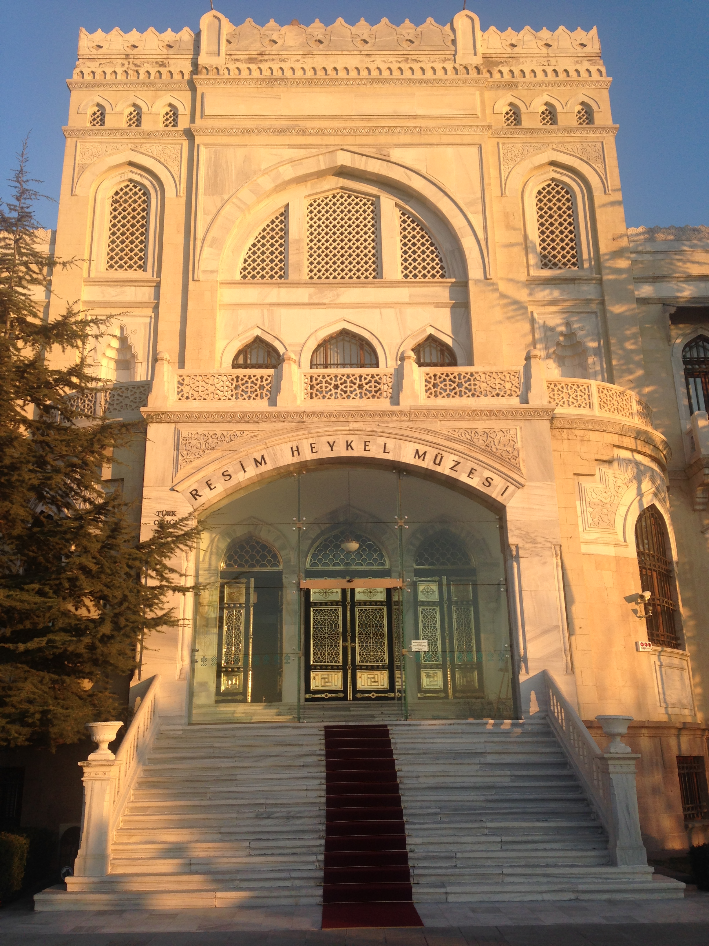 Exterior view of the main entrance of the Devlet Resim Heykel Müzesi